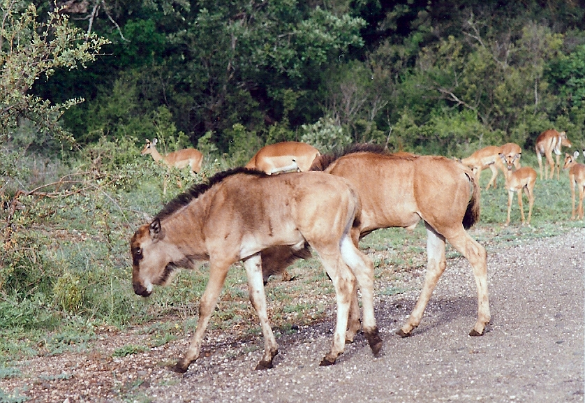 Wildebeest calves, early evening, Kruger National Park, South Africa. These wildebeest were in a mixed herd with impala, who also had young. Taken 1996 on film.